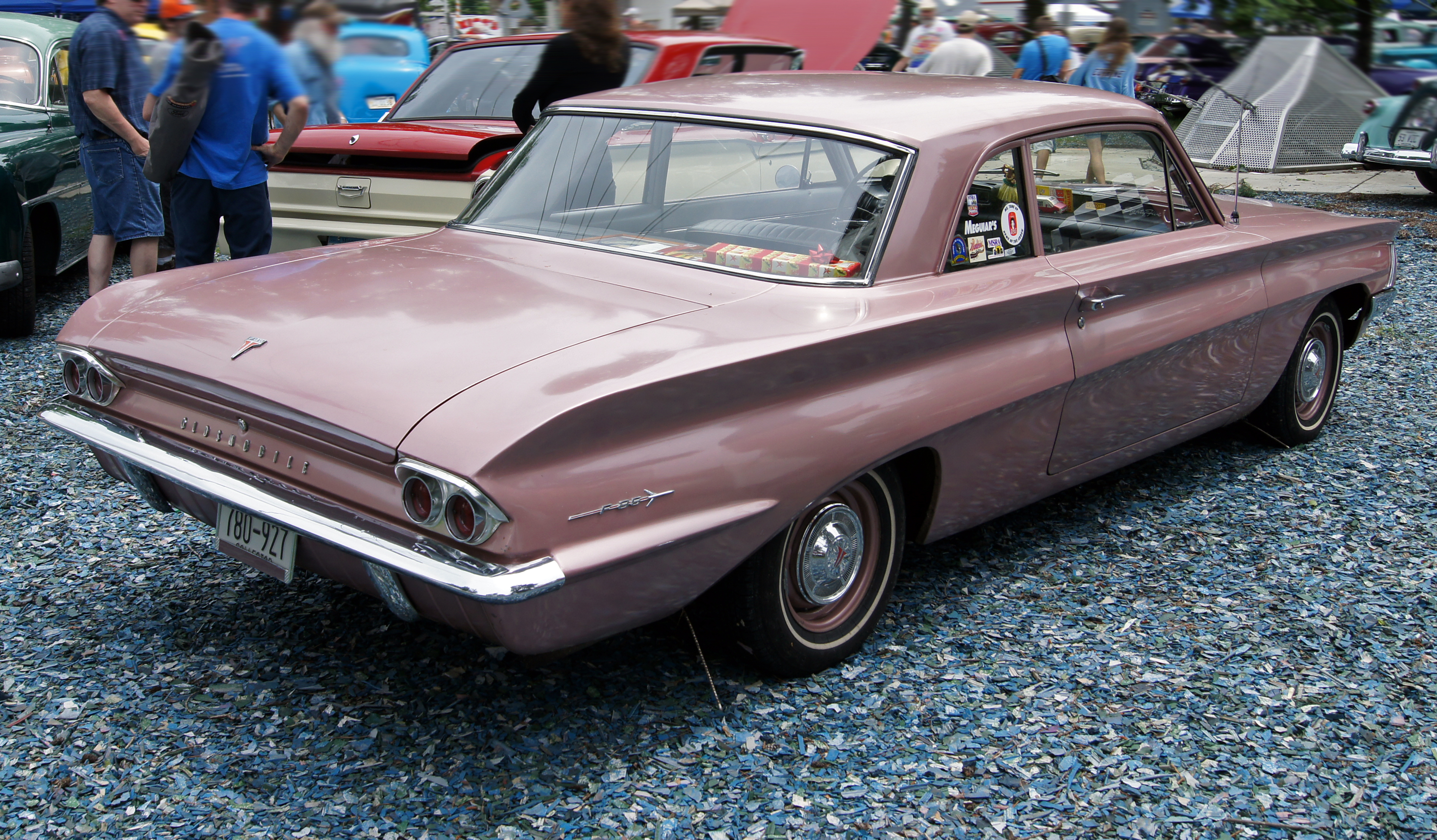 Rear of a 1962 Oldsmobile F-85 Club Coupe at the MSRA “Back to the 50′s” 40th anniversary celebration, at the State Fairgrounds in St. Paul Minnesota